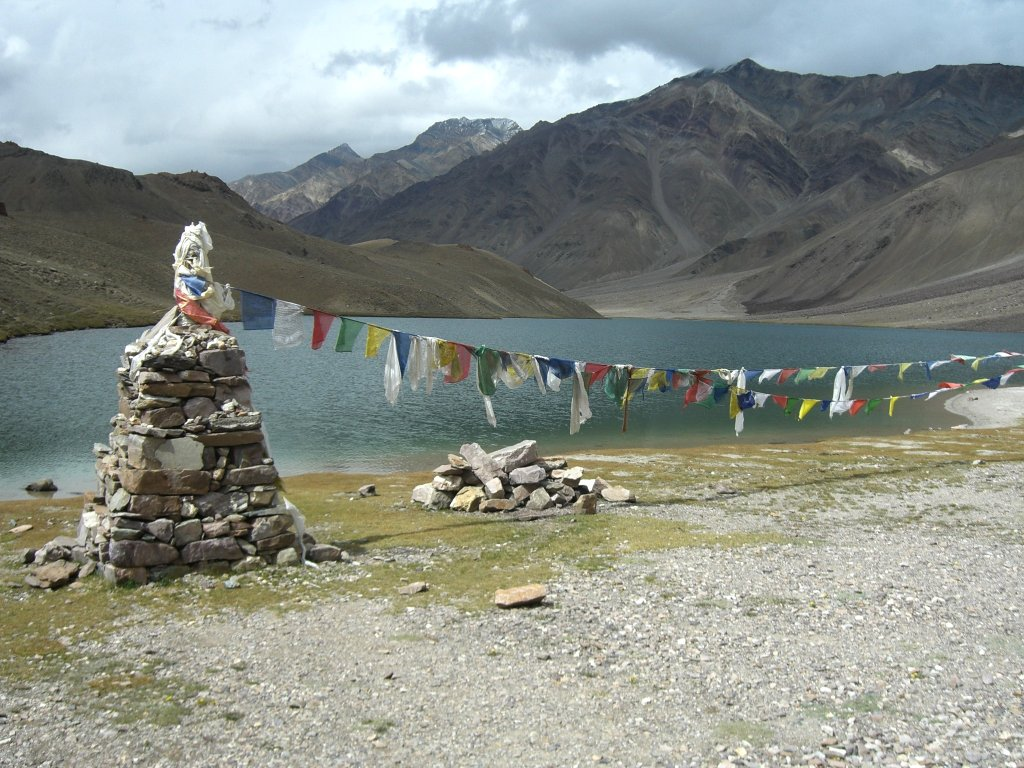 Chandra tal (Moon lake) located at 4200m near the Kunzum pass separating the Lahul and Spiti.